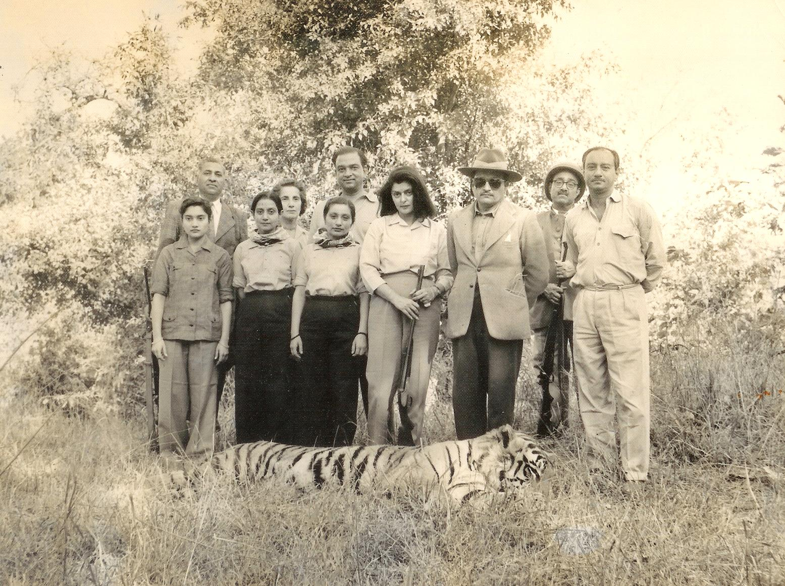 Col. Raj Singh with Maharaja Sawai Man Singh and Maharani Gayatri Devi of Jaipur